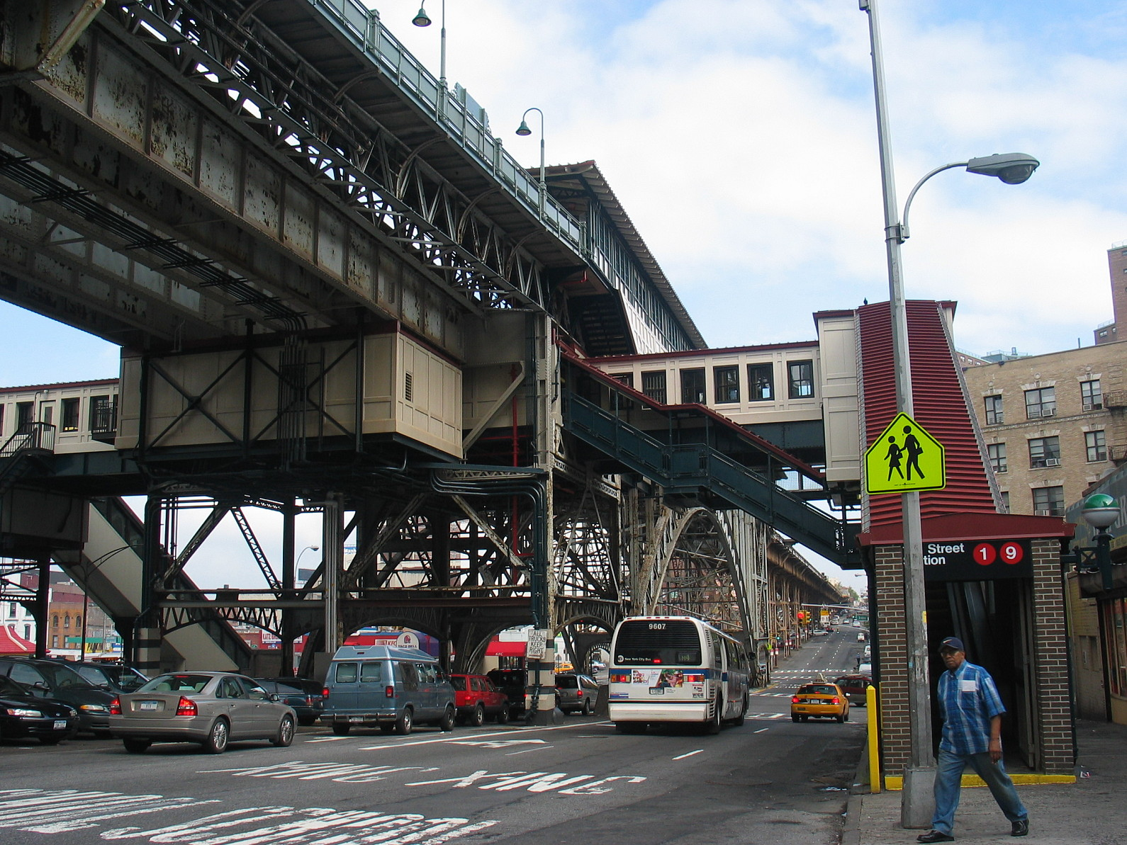 125th Street Station, with the Manhattan Valley Viaduct, part of the original IRT line.